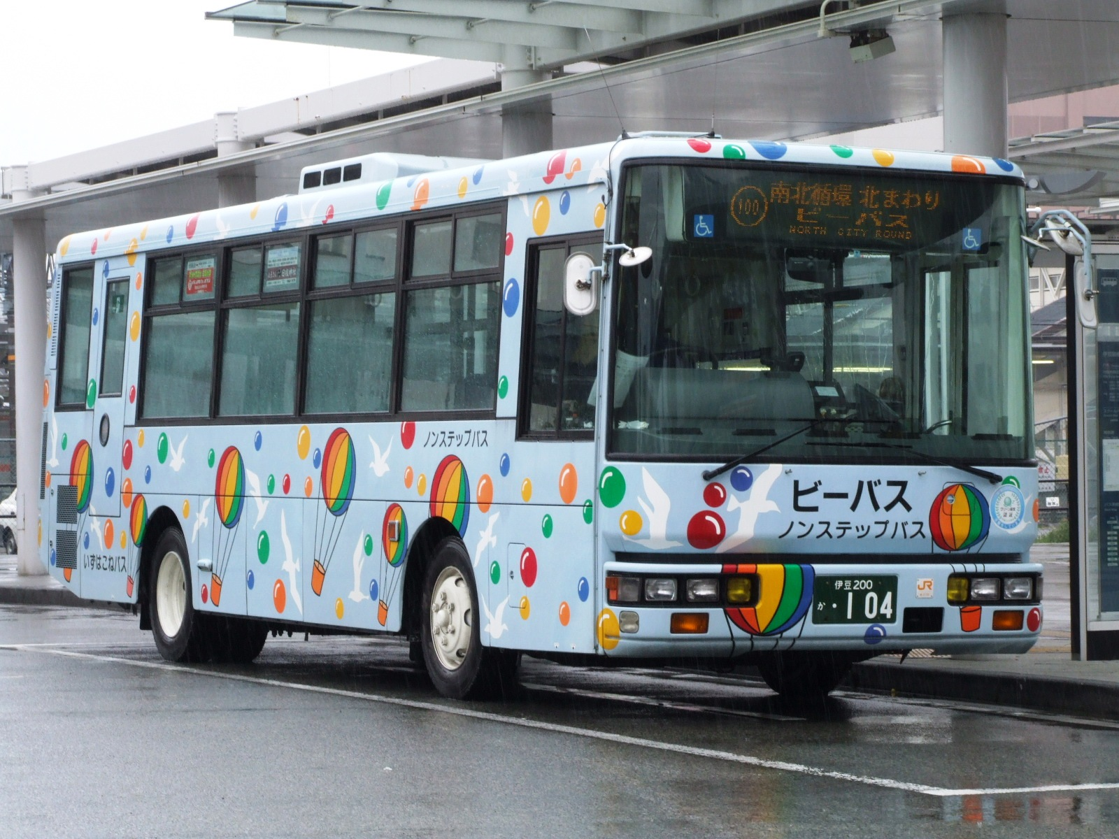 Numazu City B Bus,Izu Hakone Bus,Japan